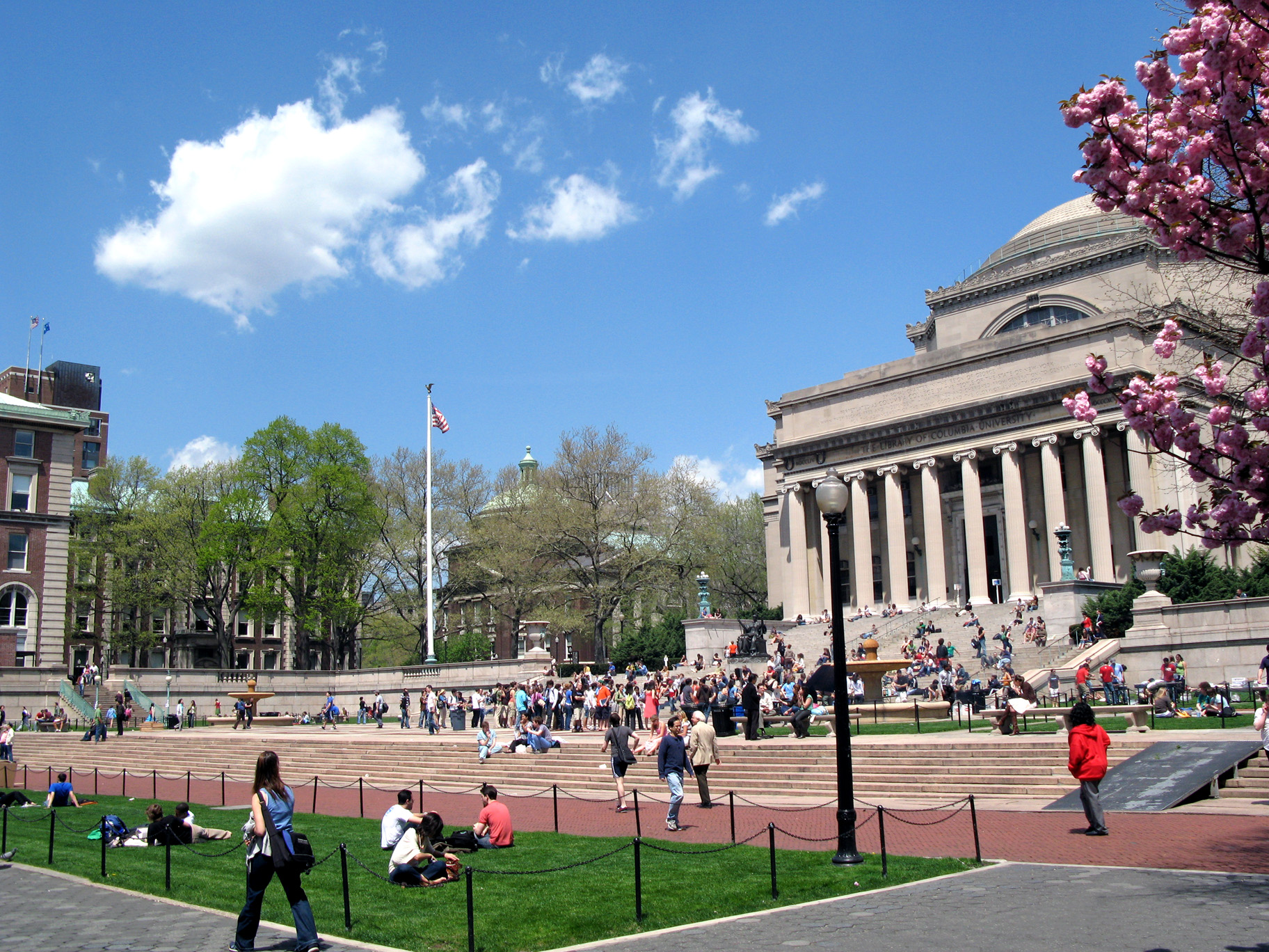 Columbia University, main campus